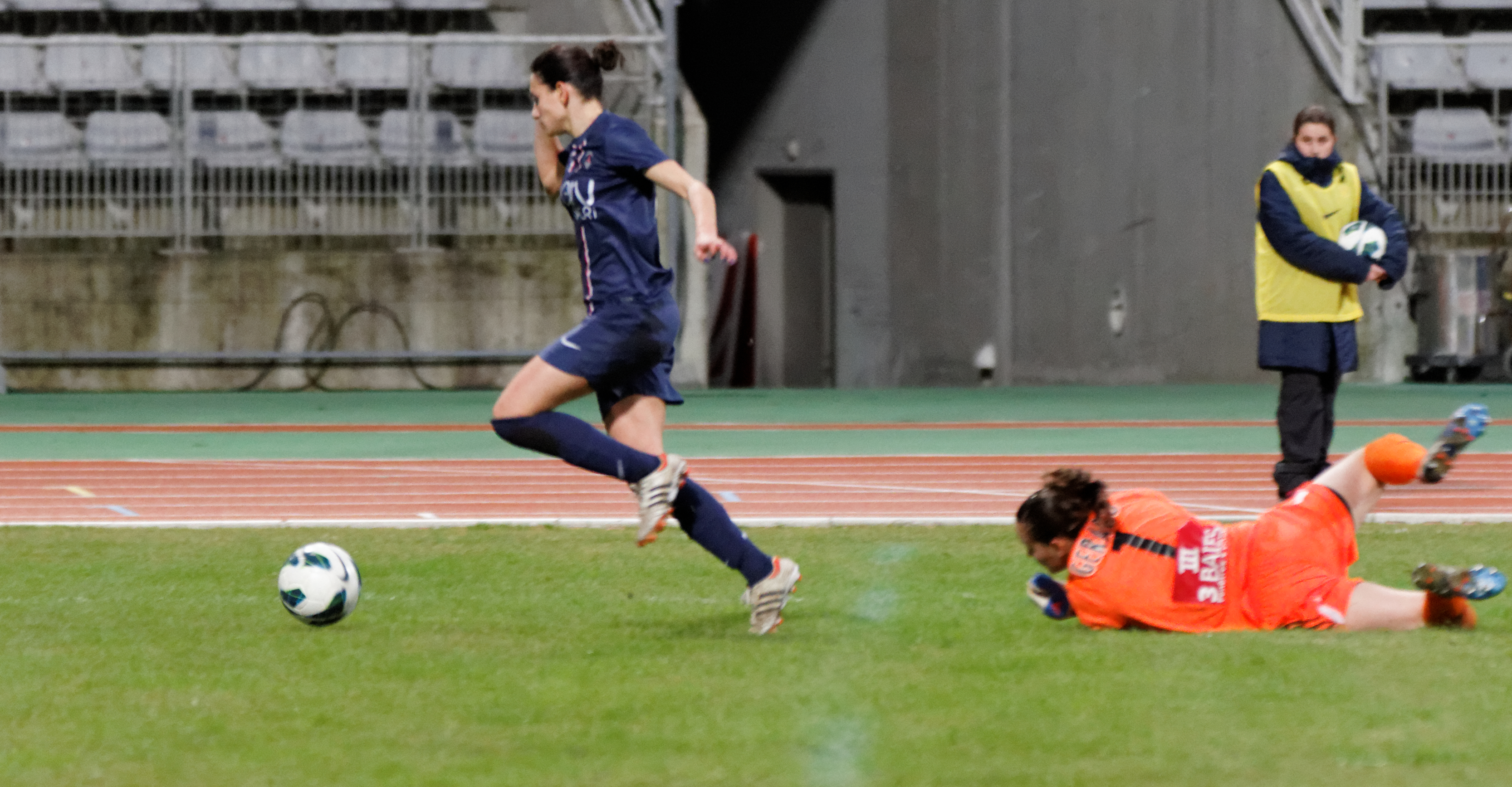 PSG-AS Saint-Étienne, december 16th, 2012.